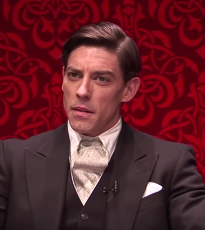 Spanish Actor Adrián lastra